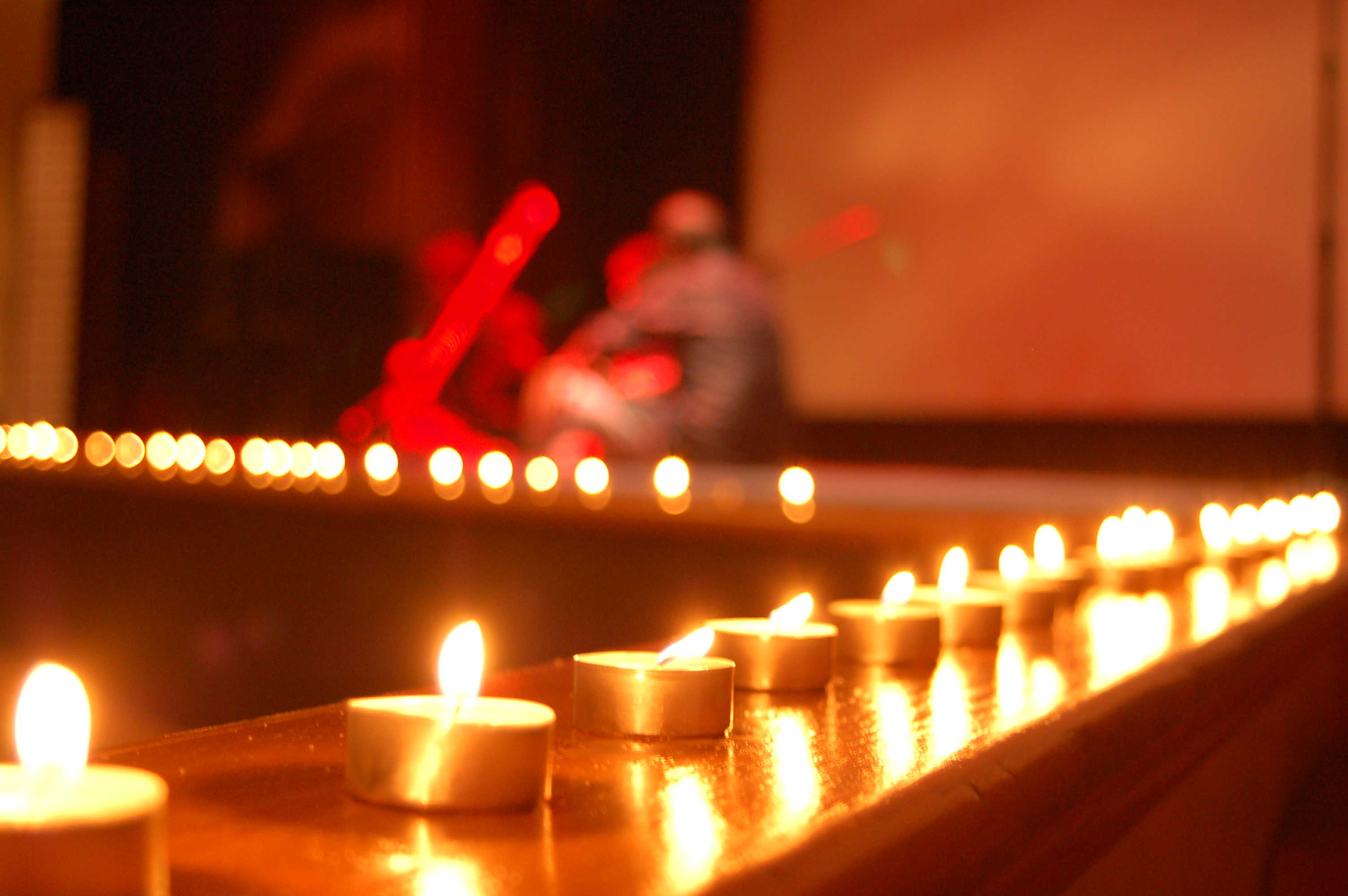 Candle decorations on Diwali.